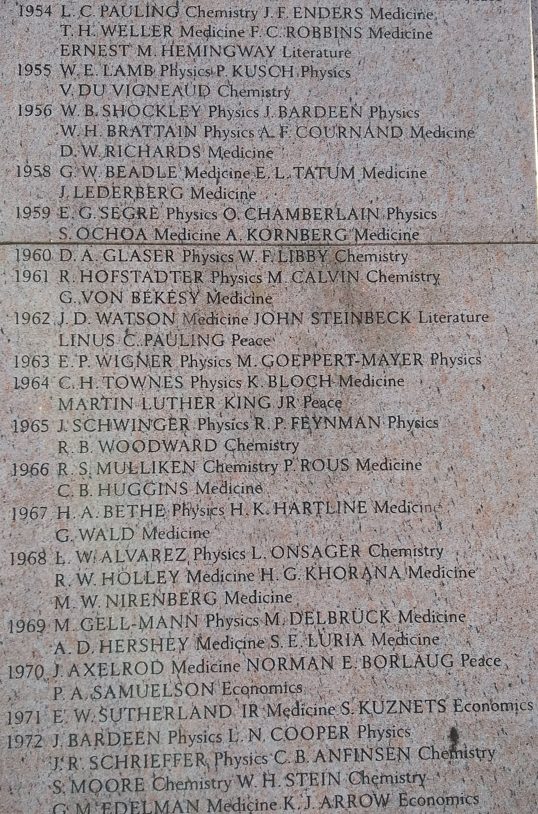 Portion of the west face of the Nobel Monument with names of US Nobel laureates from 1954-1972, including two who each won twice: Linus Pauling (for Chemistry in 1954 and Peace in 1962) and John Bardeen (for Physics in 1956 and 1972)